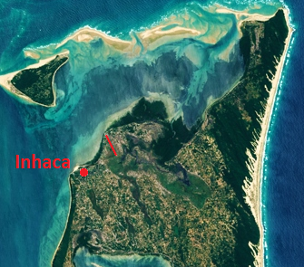 Captured by the Copernicus Sentinel-2 mission, this image highlights Inhaca town and Inhaca Airport, both in the north of Inhaca Island in the Bay of Maputo, Mozambique.